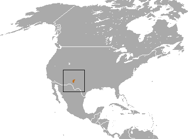 New Mexico Shrew (Sorex neomexicanus) range